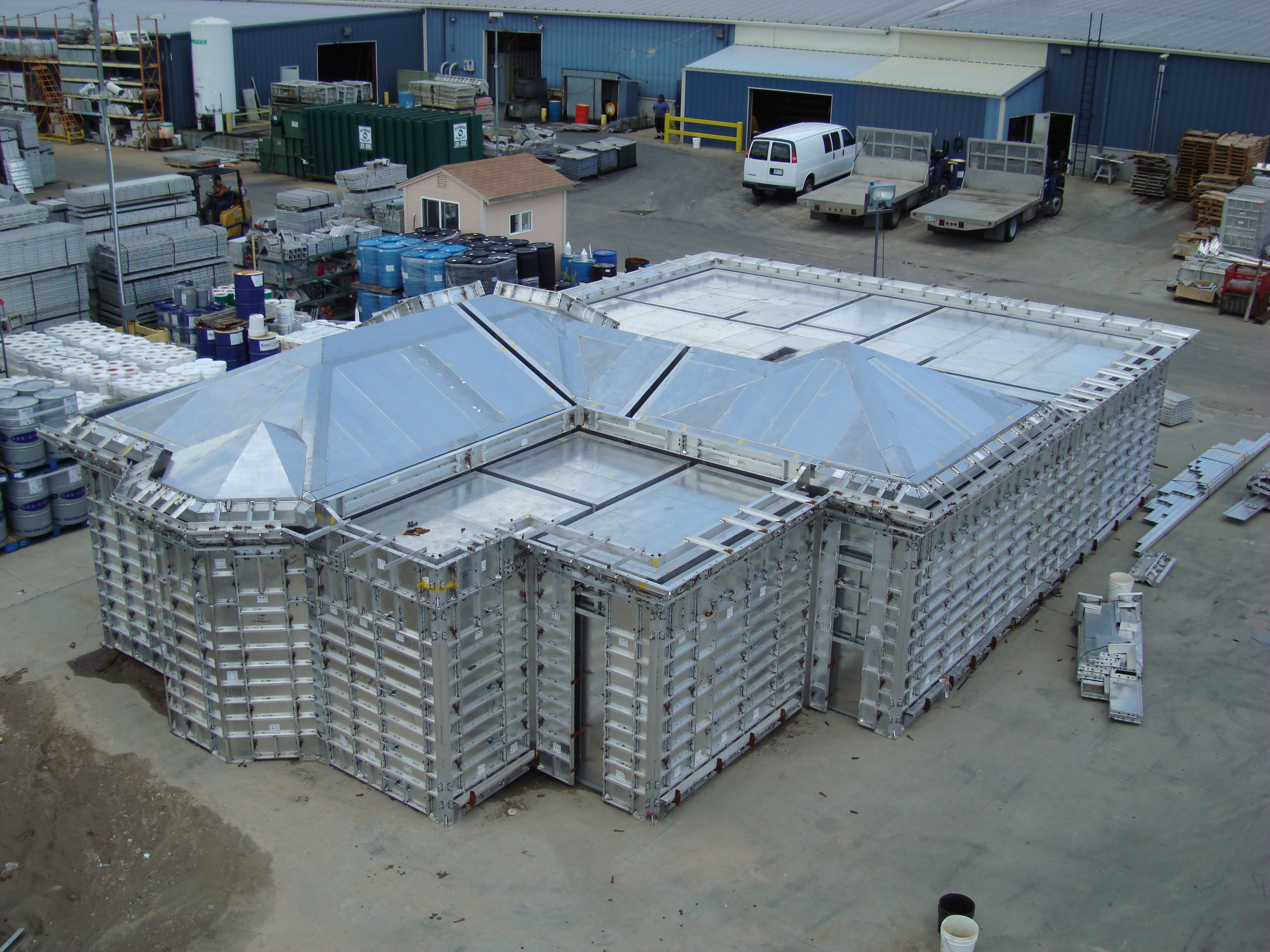 Aluminum concrete formwork for rapid housing construction